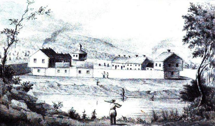 Fort Frye at the Beverly, Ohio settlement. The fort was constructed during January and February 1791 following the Big Bottom massacre and the start of the Northwest Indian War. From the book by S. P. Hildreth: Pioneer History: Being an Account of the First Examinations of the Ohio Valley, and the Early Settlement of the Northwest Territory, H. W. Derby and Co., Cincinnati, Ohio (1848). Illustration plate located between pp. 440-41. ColWilliam (talk) 00:44, 1 July 2011 (UTC)